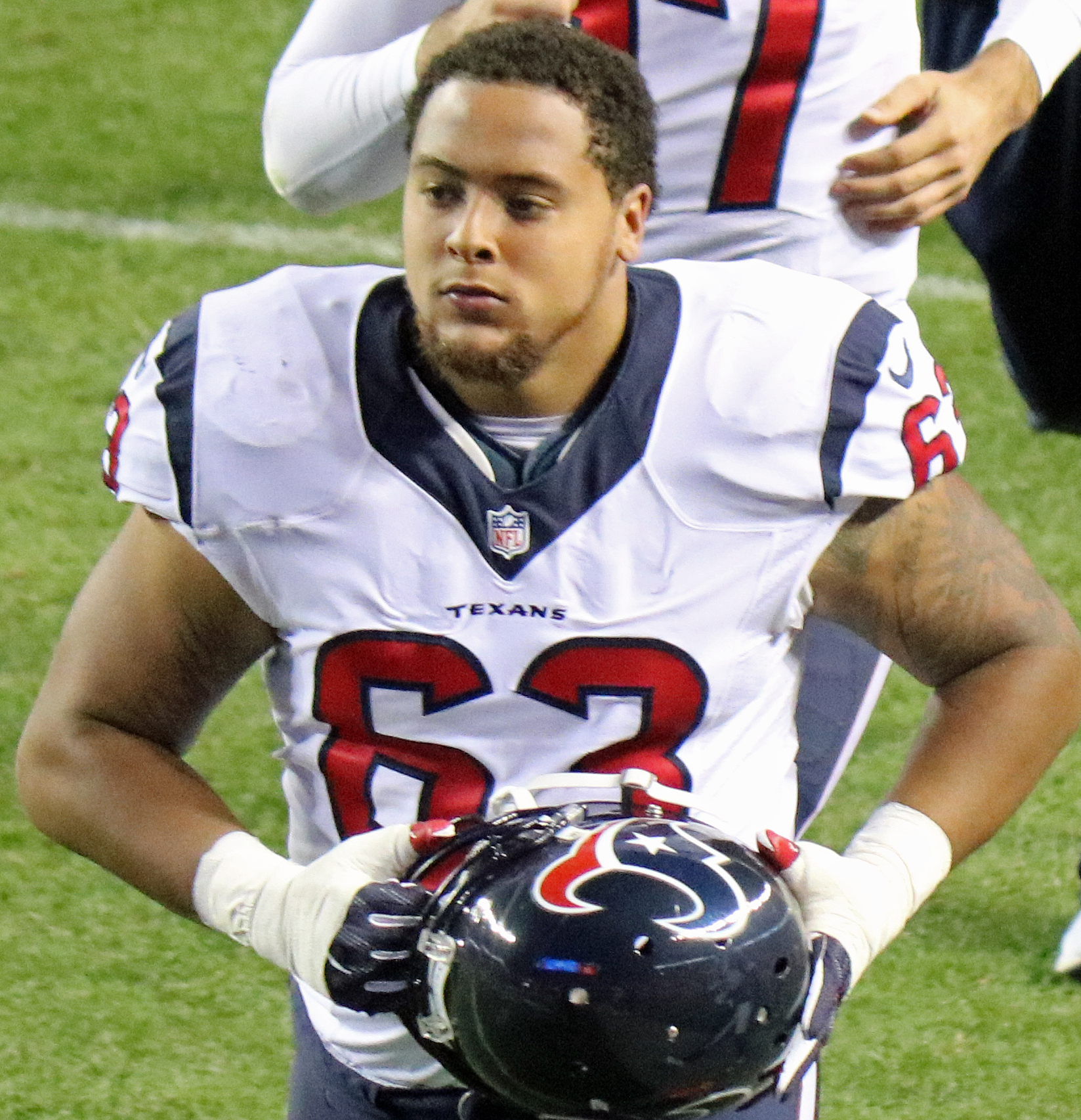 Kendall Lamm, a player on the National Football League.